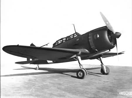 Picture of a Reggiane Re 2003